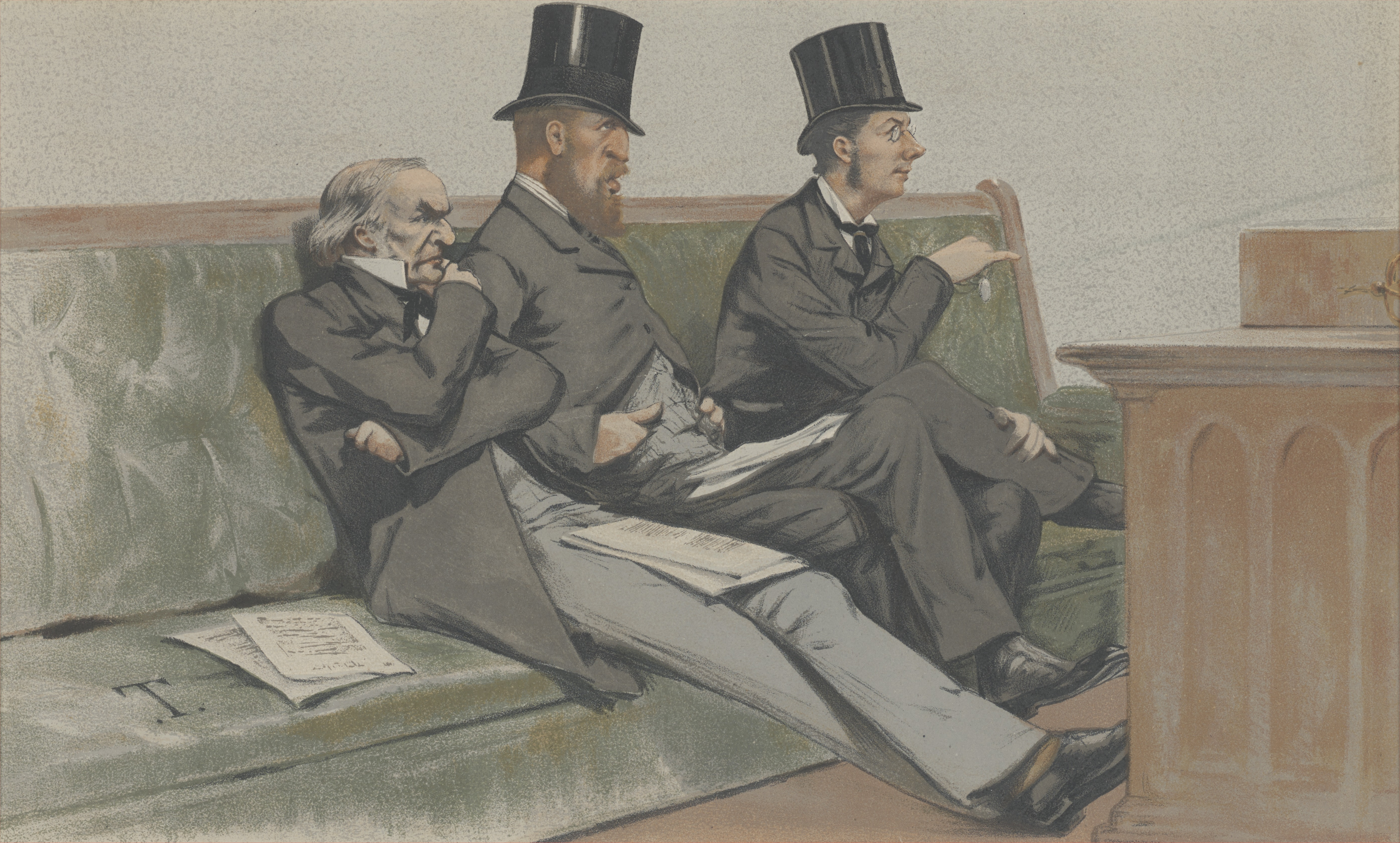 Caricature of "The Treasury Bench" : William Ewart Gladstone, Marquess of Hartington and Joseph Chamberlain. Caption read "Babble, Birth and Brummagem".